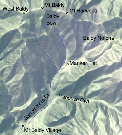 Simple map of Mount San Antonio, California